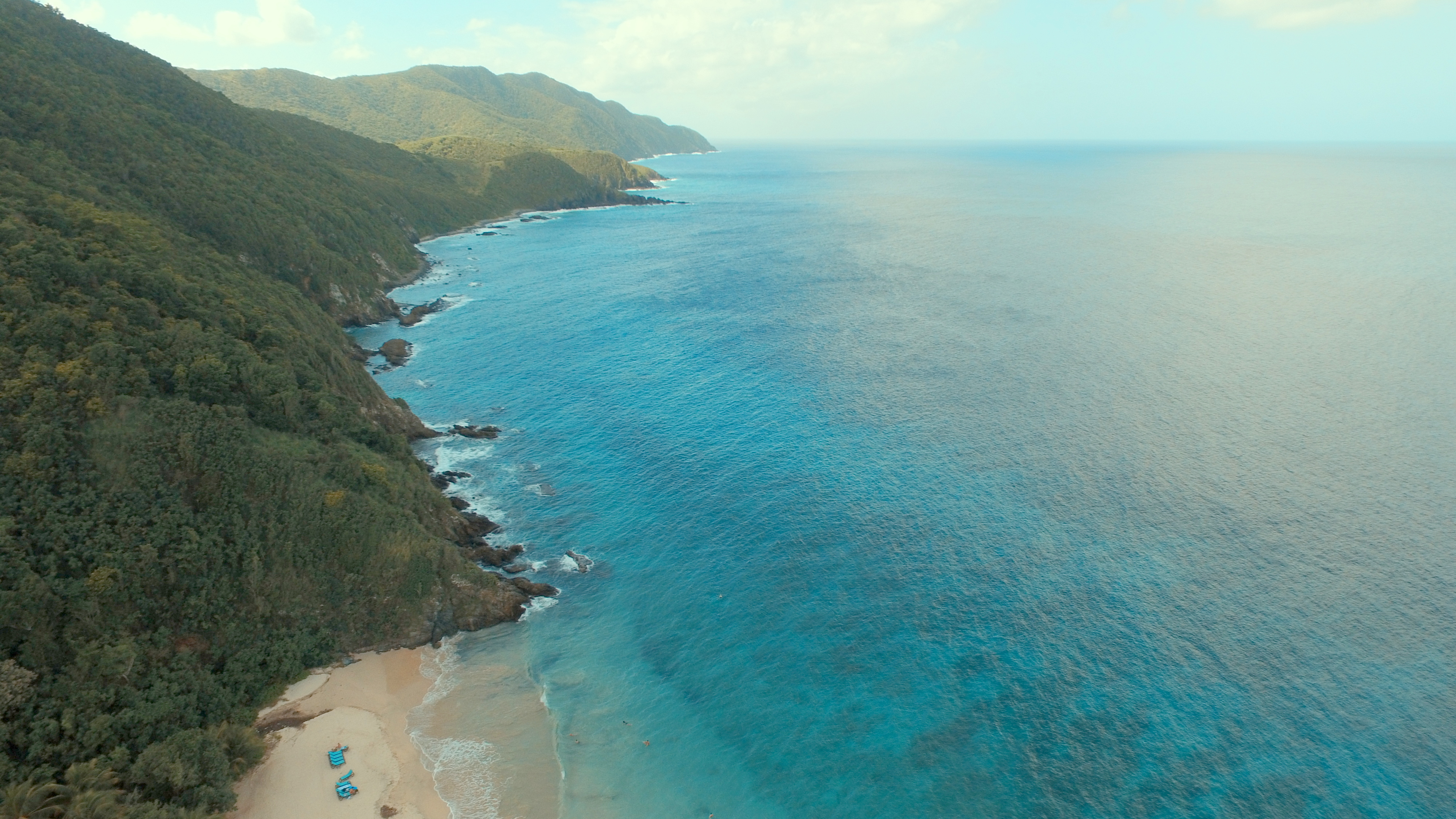 Northwest, St Croix 00840, USVI